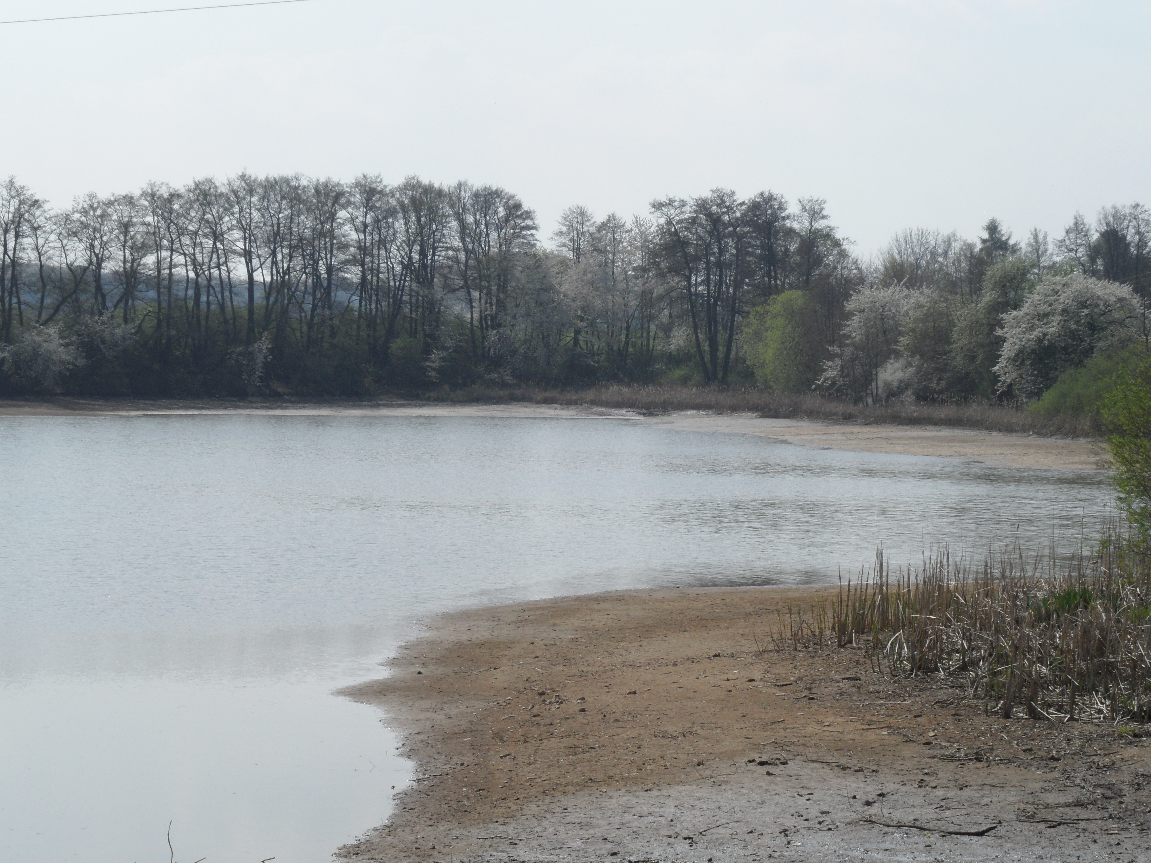 Medenický potok F. Semi-Empty Pond Turkovec, Kutná Hora District, the Czech Republic.